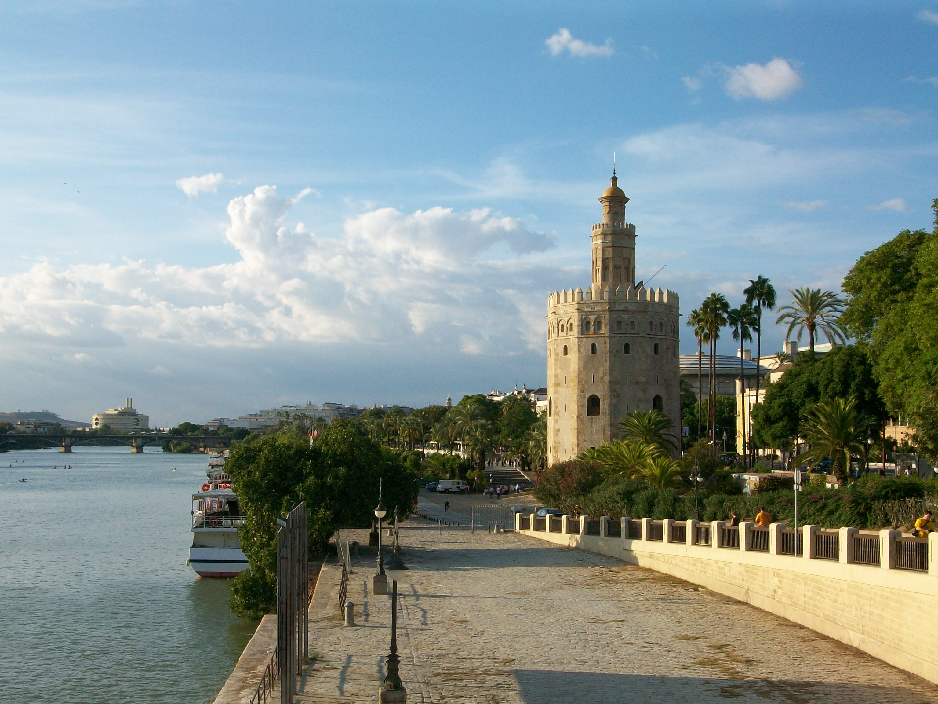 A shot of the Tower of Gold (Spanish: Torre del Oro) in Sevilla, España (Seville, Spain).